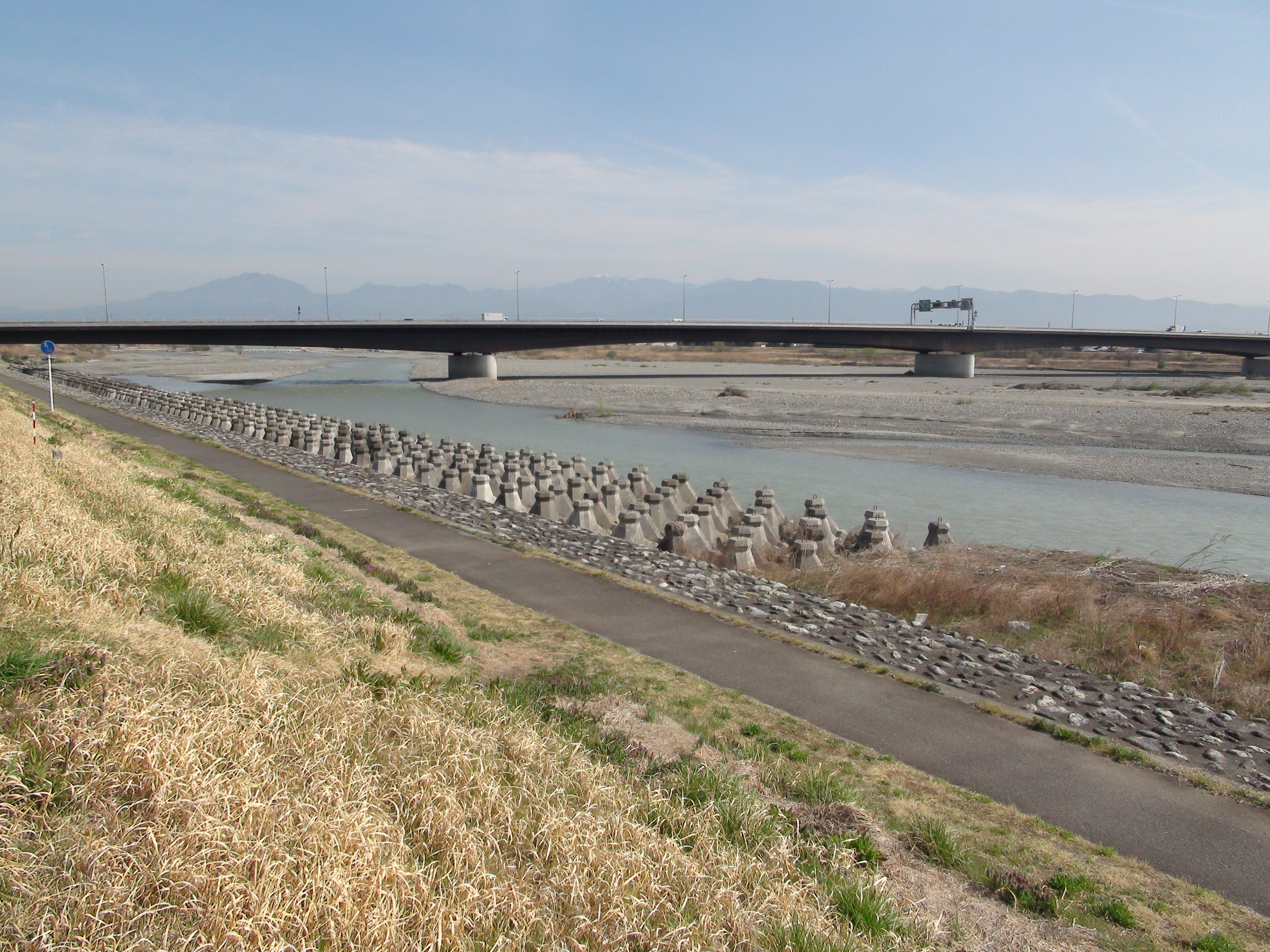 Kamanashigawa-Ohashi Bridge(Kamanashi-river)